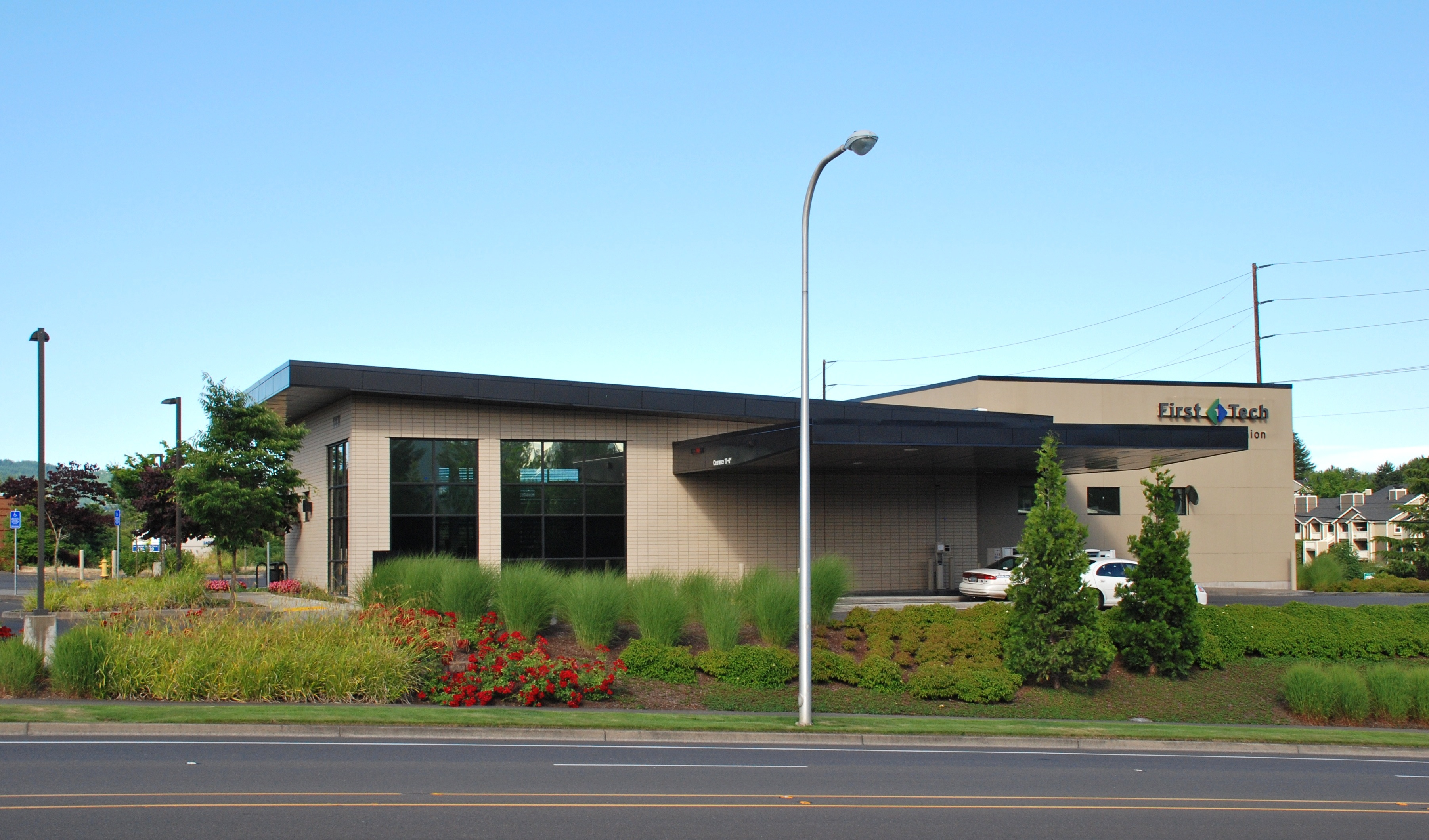 The Tanasbourne branch of First Tech Credit Union (on N.W. Evergreen Parkway), located at the northwest corner of Beaverton, Oregon (and across the street from Hillsboro, Oregon).